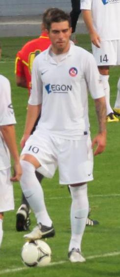 Photo - Argentine footballer David Alberto Depetris